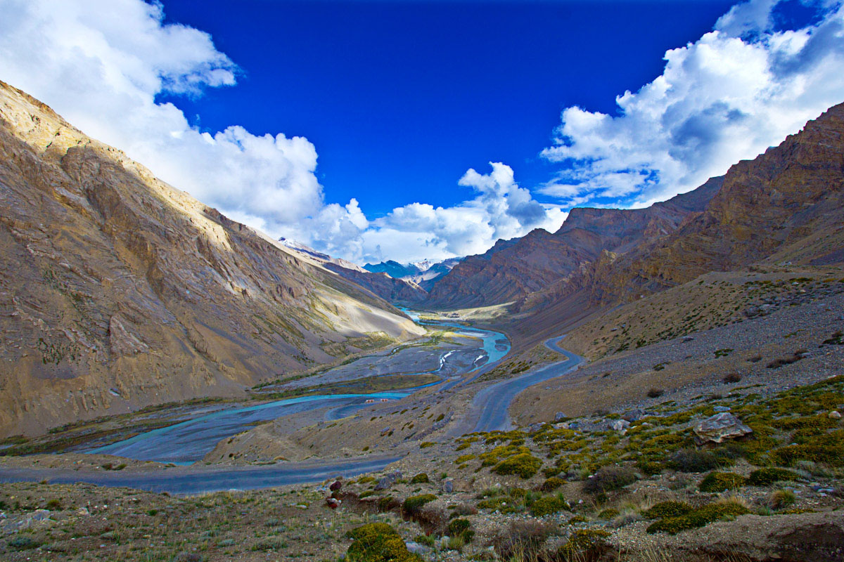 The road between Leh-Manali in Ladakh.